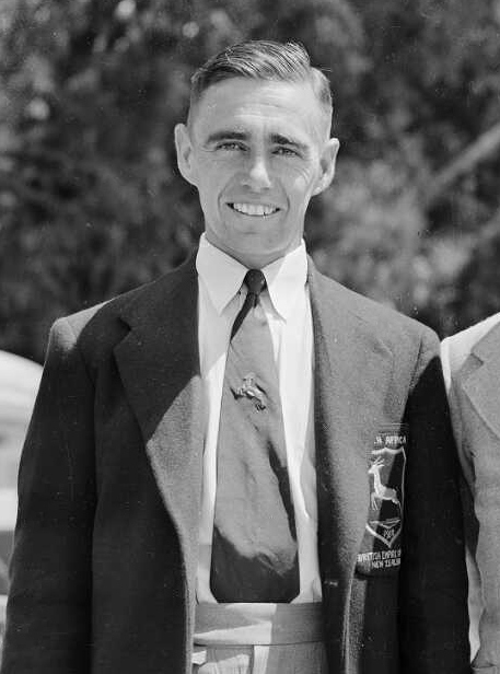 South African sculler I R G Stephen wearing his official British Empire Games uniform, and standing with another man in a car park at Karapiro. Photograph taken circa 31 January 1950 by an Evening Post photographer.